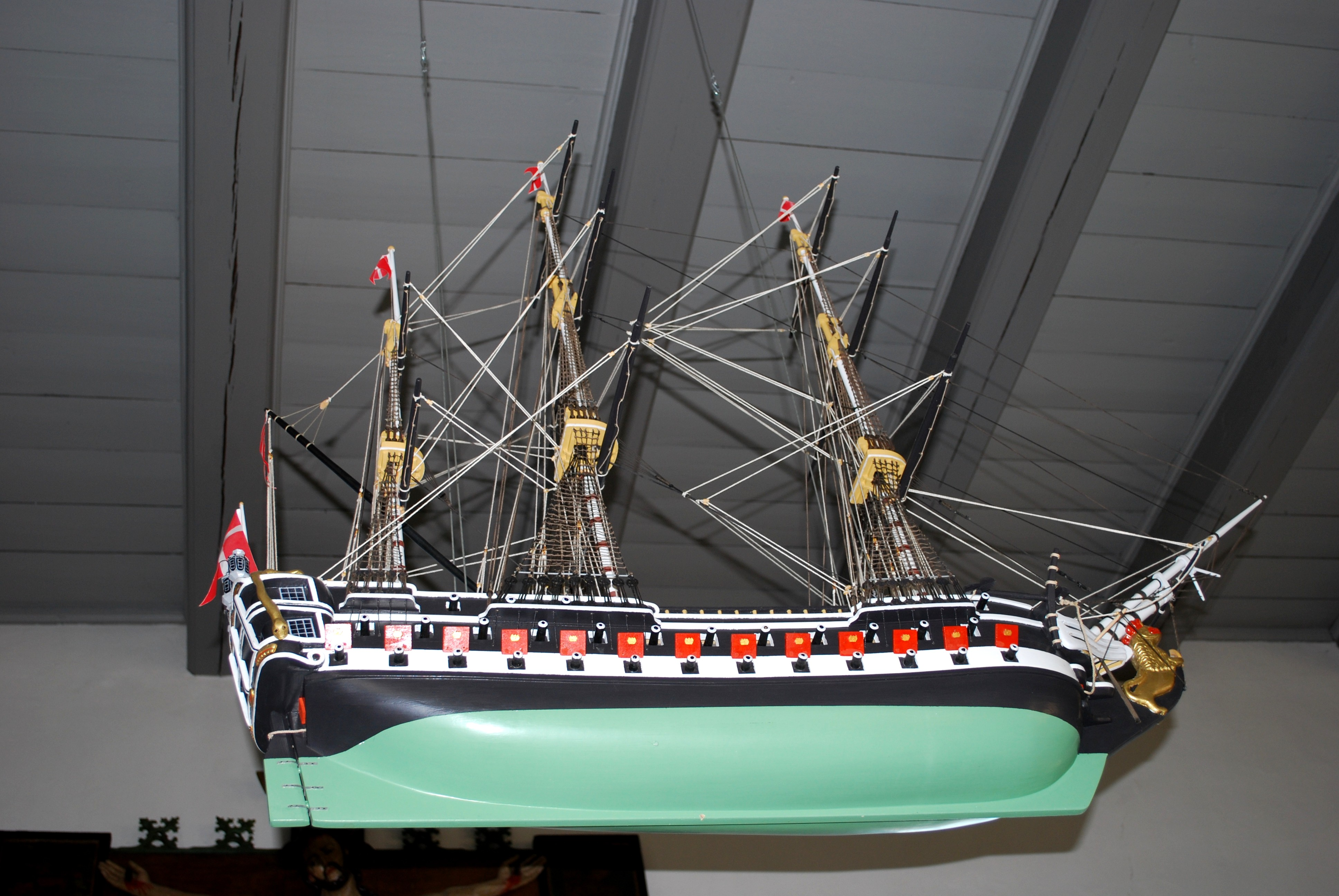 Norske Løve, the nave of Ketting Kirke, Als, Denmark